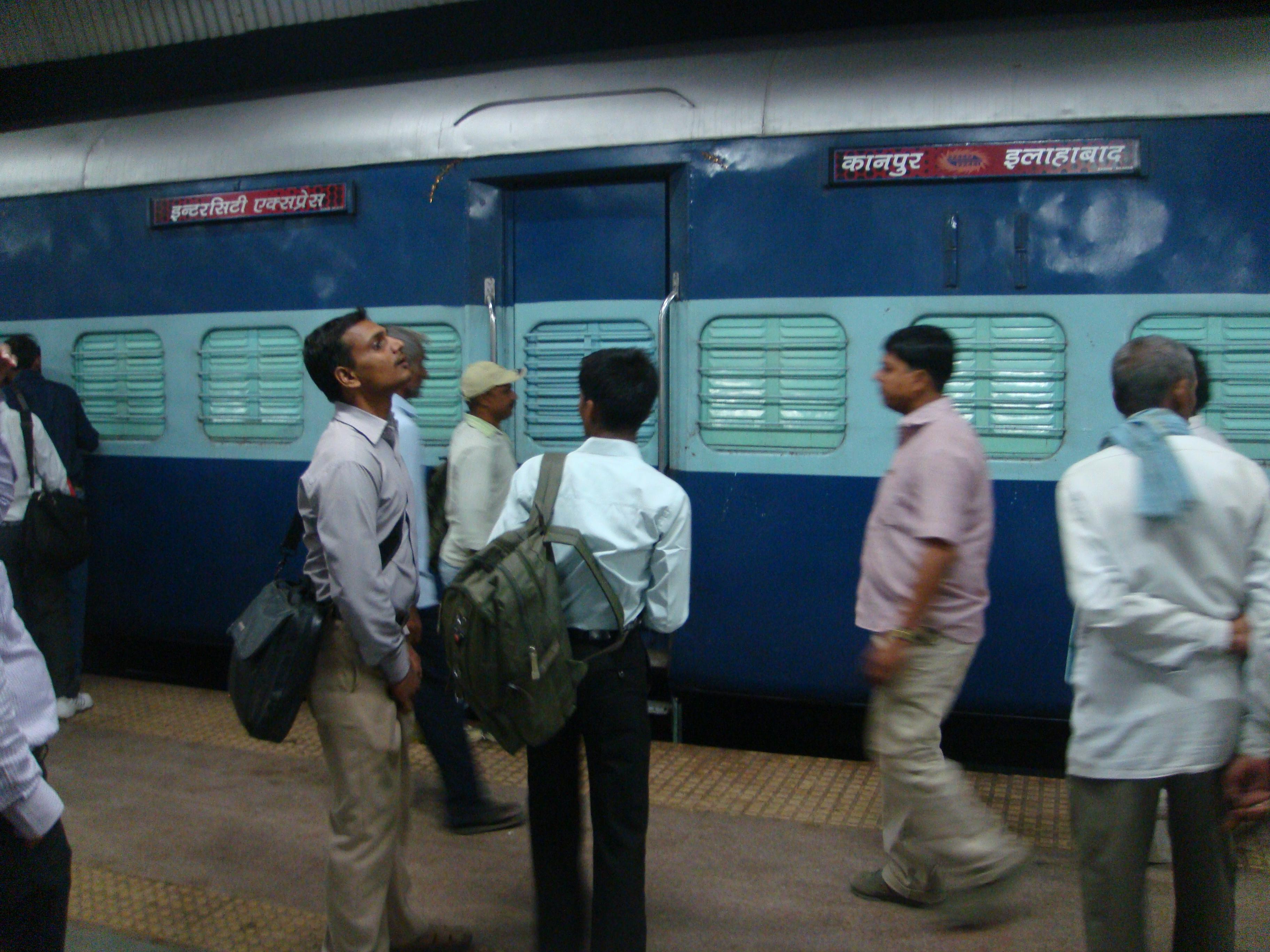 12241 Allahabad Intercity Express